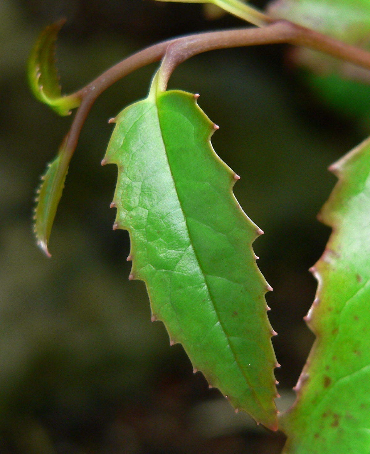 Amborella trichopoda at the University of California Botanical Garden, Berkeley, California